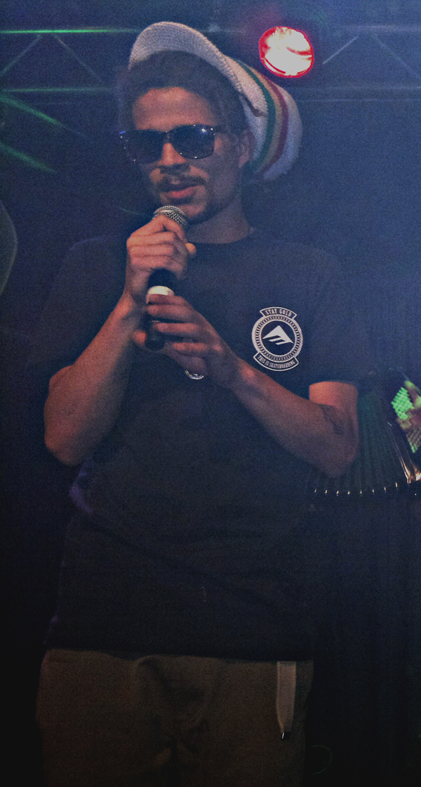 Juno from Elokuu performing at Bar Kino, Pori, Finland.